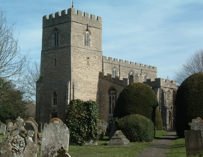 All Saints' Church in Kempston, Bedfordshire